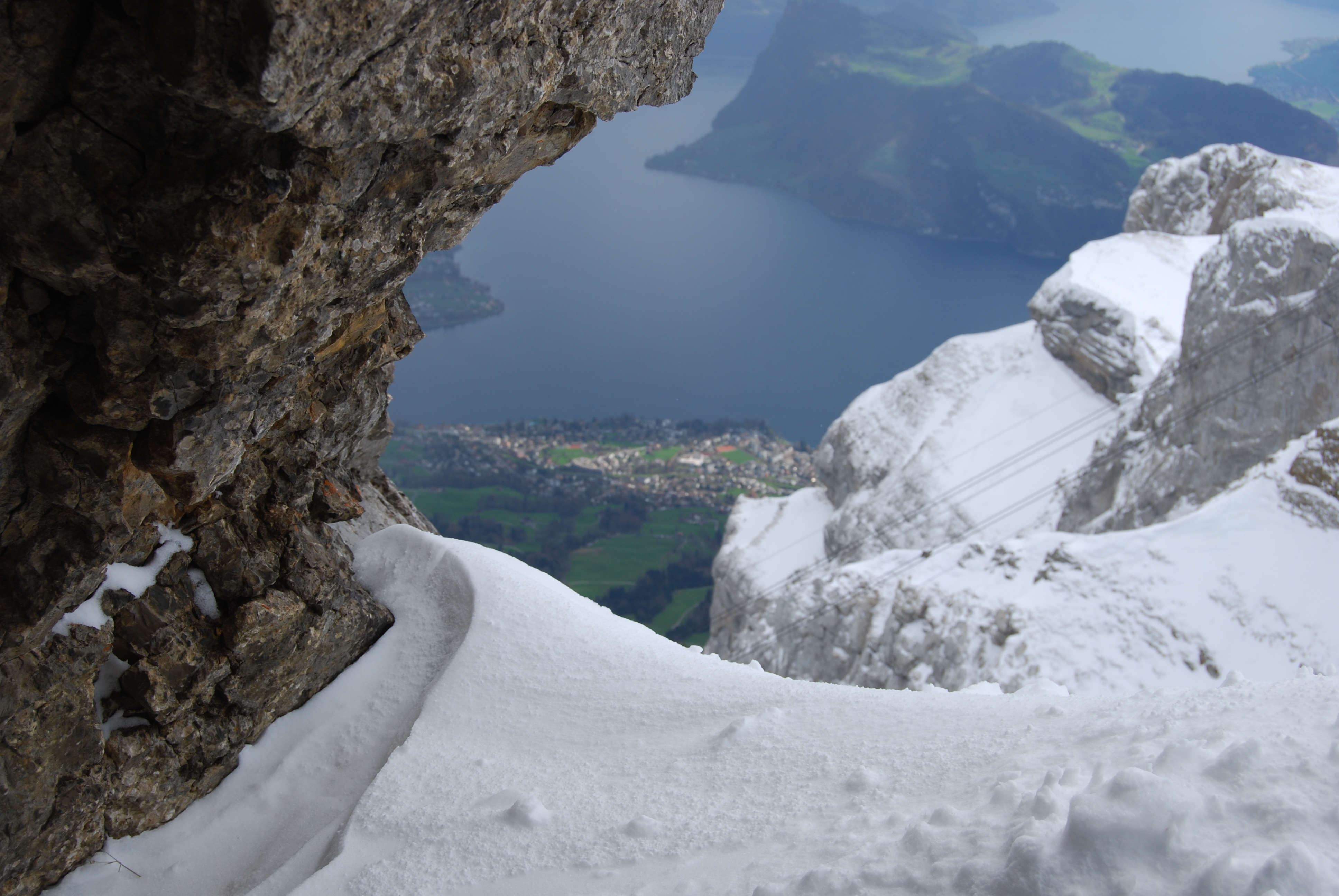 View to Hergiswil and the Lake of Lucerne from Pilatus, Switzerland.